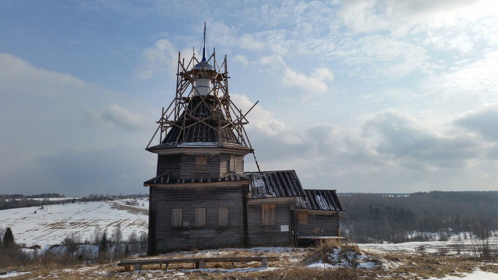 часовня Зосимы и Савватия в Семёновской